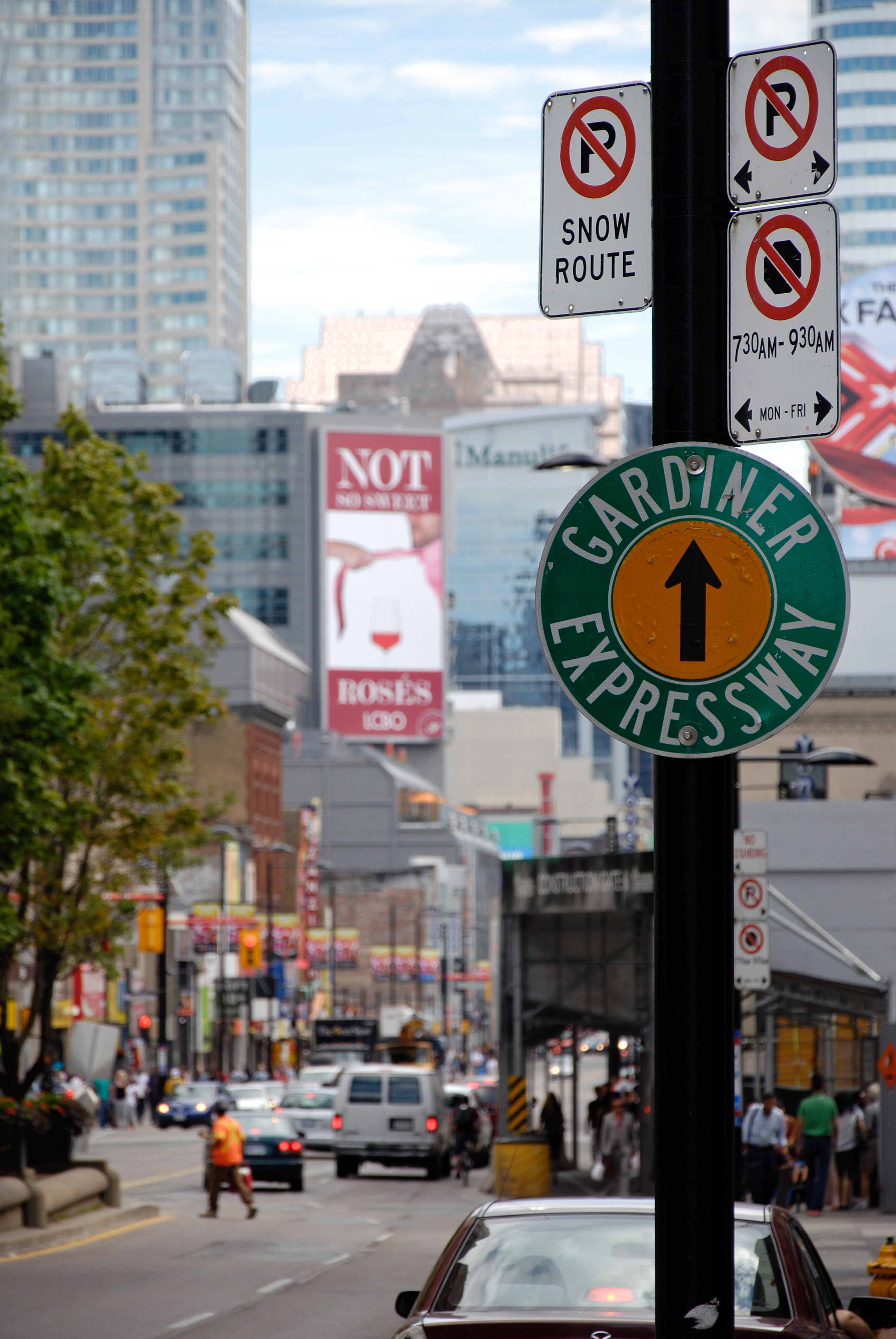 A trailblazer for the Gardiner Expressway. Taken by myself.